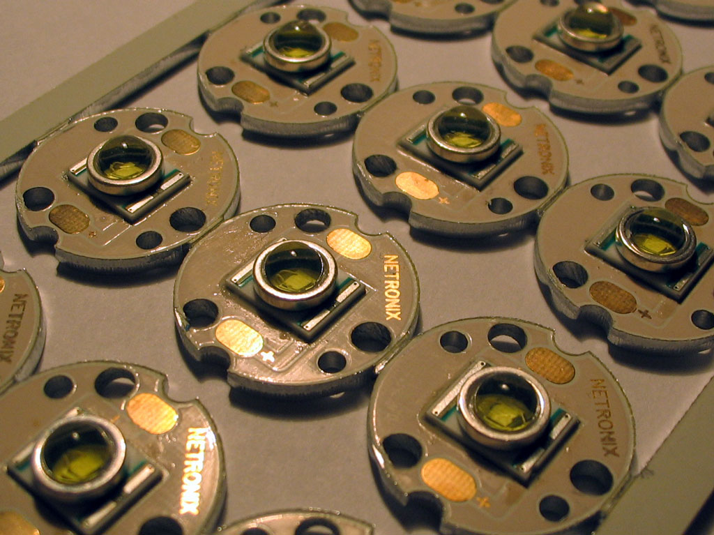 High-power light emitting diodes, Cree Xlamp 7090 XR-E Q4